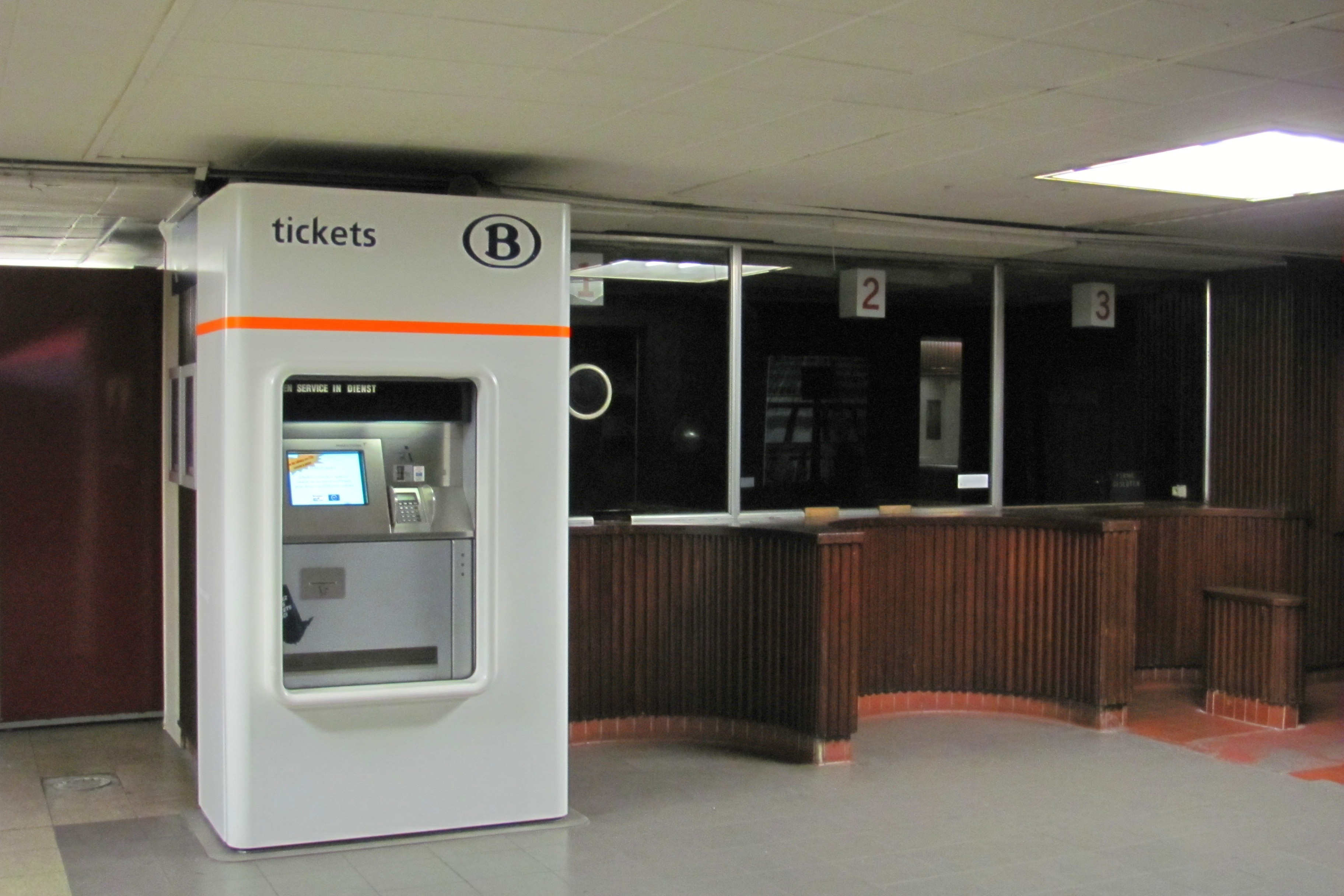 Station Brussels-Congress